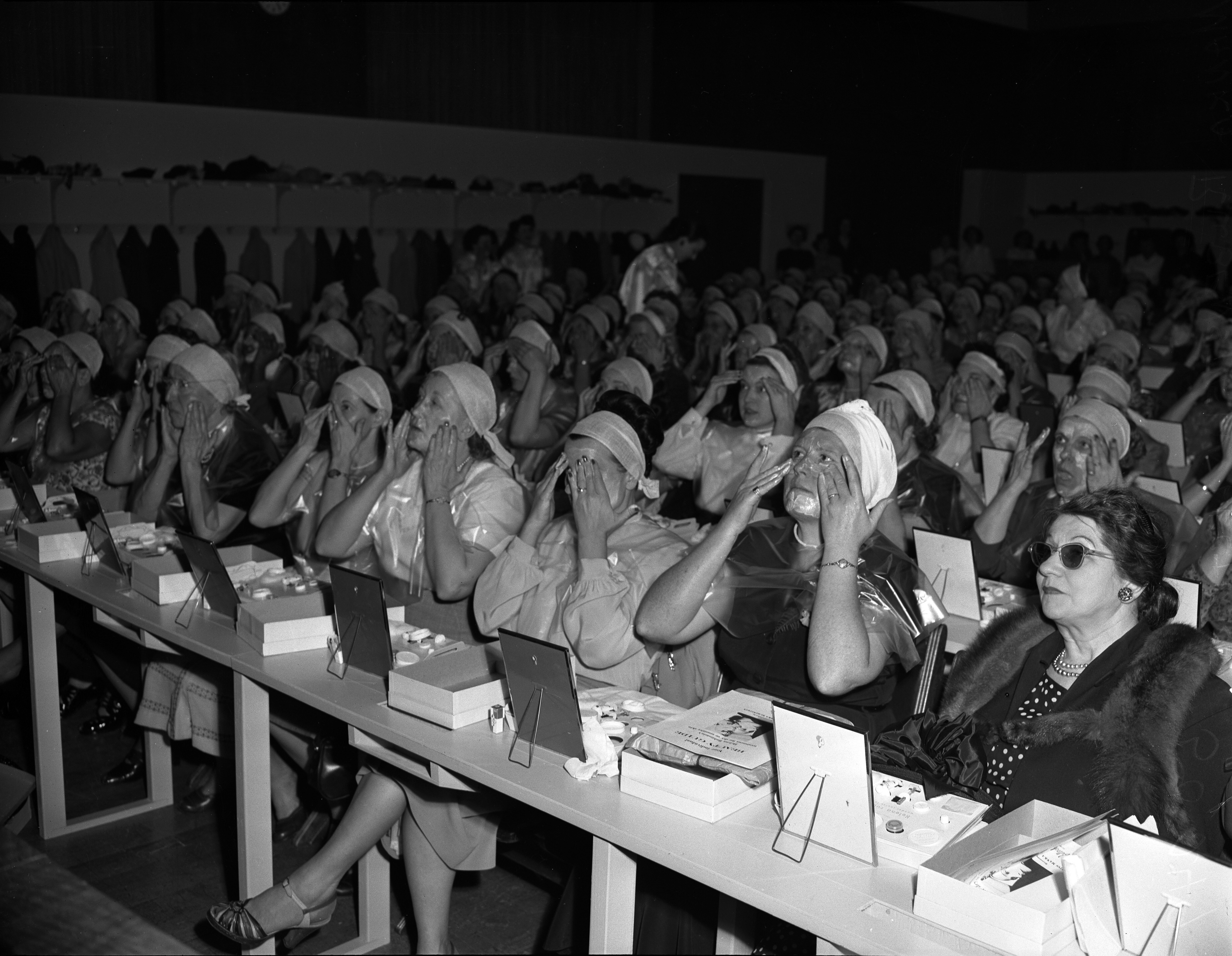 Title: Audience of women applying makeup at lecture by beautician Manka Rubenstein in Los Angeles, Calif., circa 1950 Publication:Los Angeles Daily News Publication date:circa 1950 Source:Los Angeles Times photographic archive, UCLA Library Note about non-renewal of copyright: [1] Category:Images of California